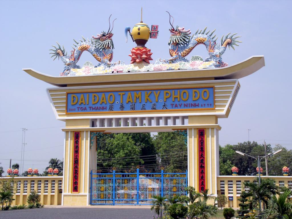 Tây Ninh Holy See main gate.